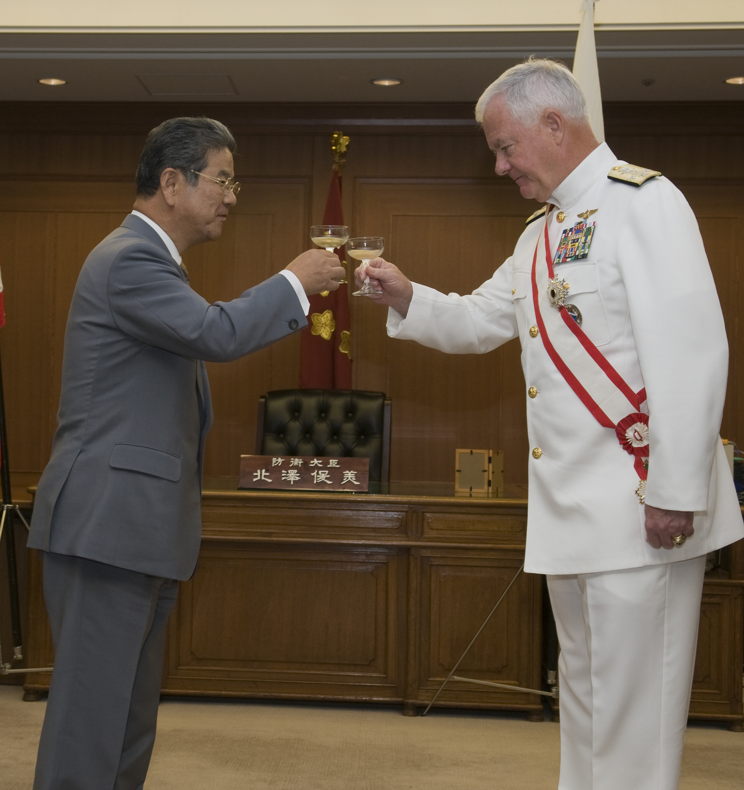 TOKYO, Japan (Sept. 29, 2009) Adm. Timothy J. Keating, commander of U.S. Pacific Command, and Japan Minister of Defense the Honorable Toshimi Kitazwa toast after Keating is presented with the Grand Cordon of the Order of the Rising Sun. Keating was presented the medal on behalf of the Emperor Japan. (U.S. Navy photo by Mass Communication Specialist 2nd Class Elisia V. Gonzales/Released)